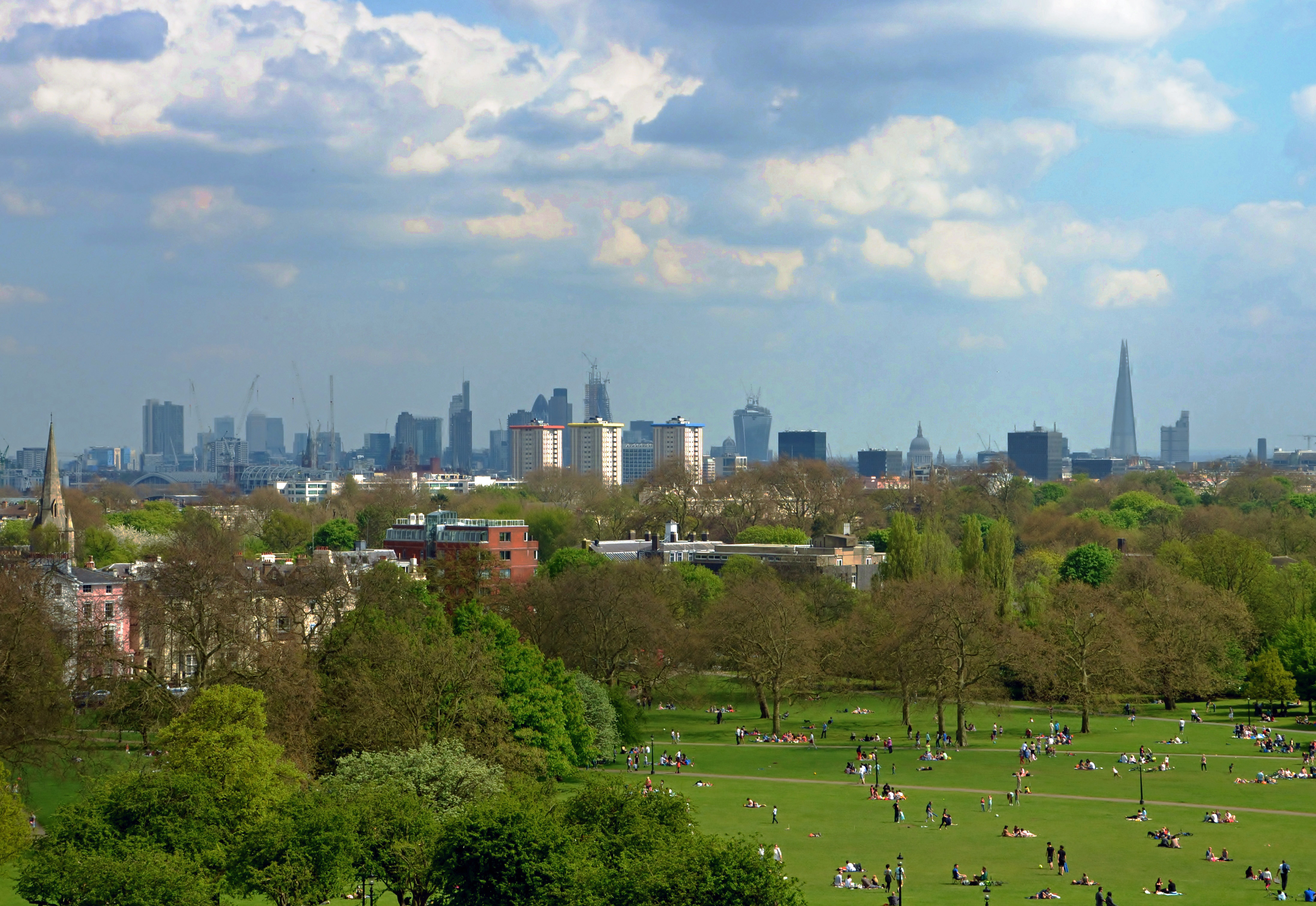 Primrose Hill, at 256ft (78m), offers some of the best views of the city. Plenty of famous landmarks in this photo, most of them built fairly recently; when I used to come here 20 odd years ago, when I actually lived in London, St Paul's would still have been one of the most prominent buildings on the skyline.